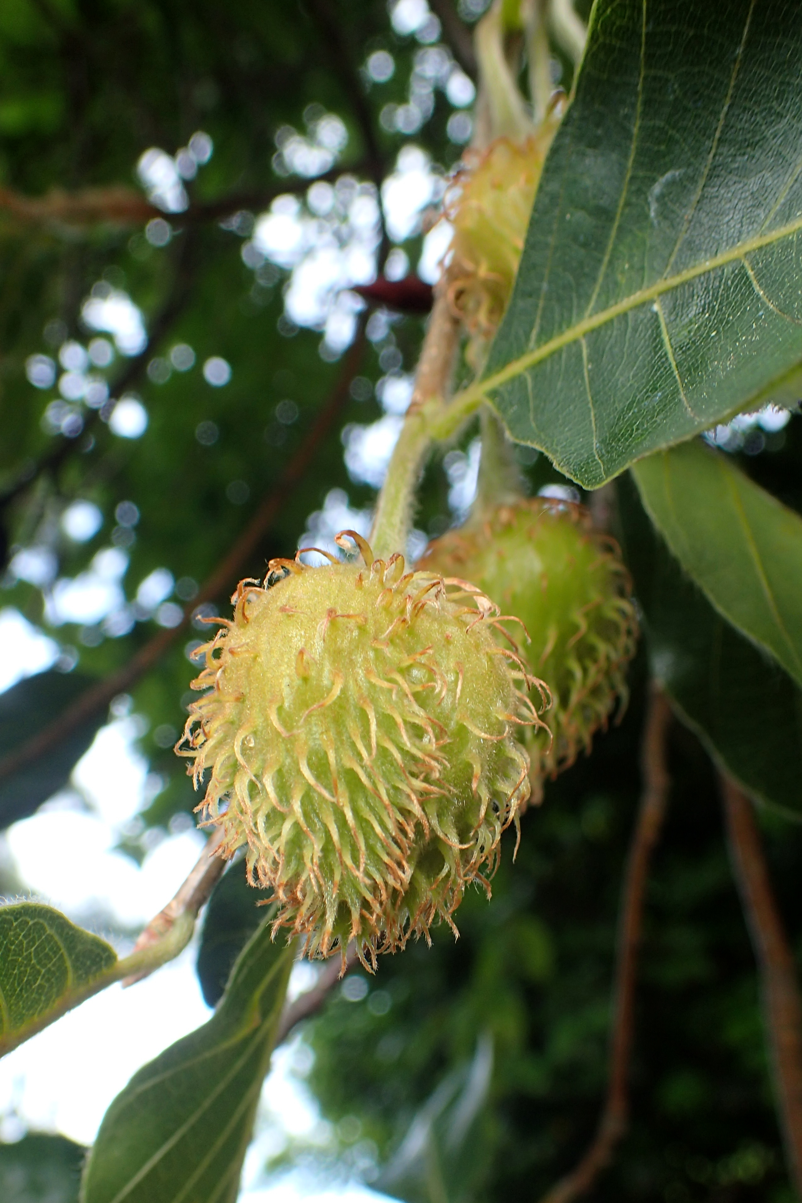 Fagus orientalis in botanical garden in Batumi